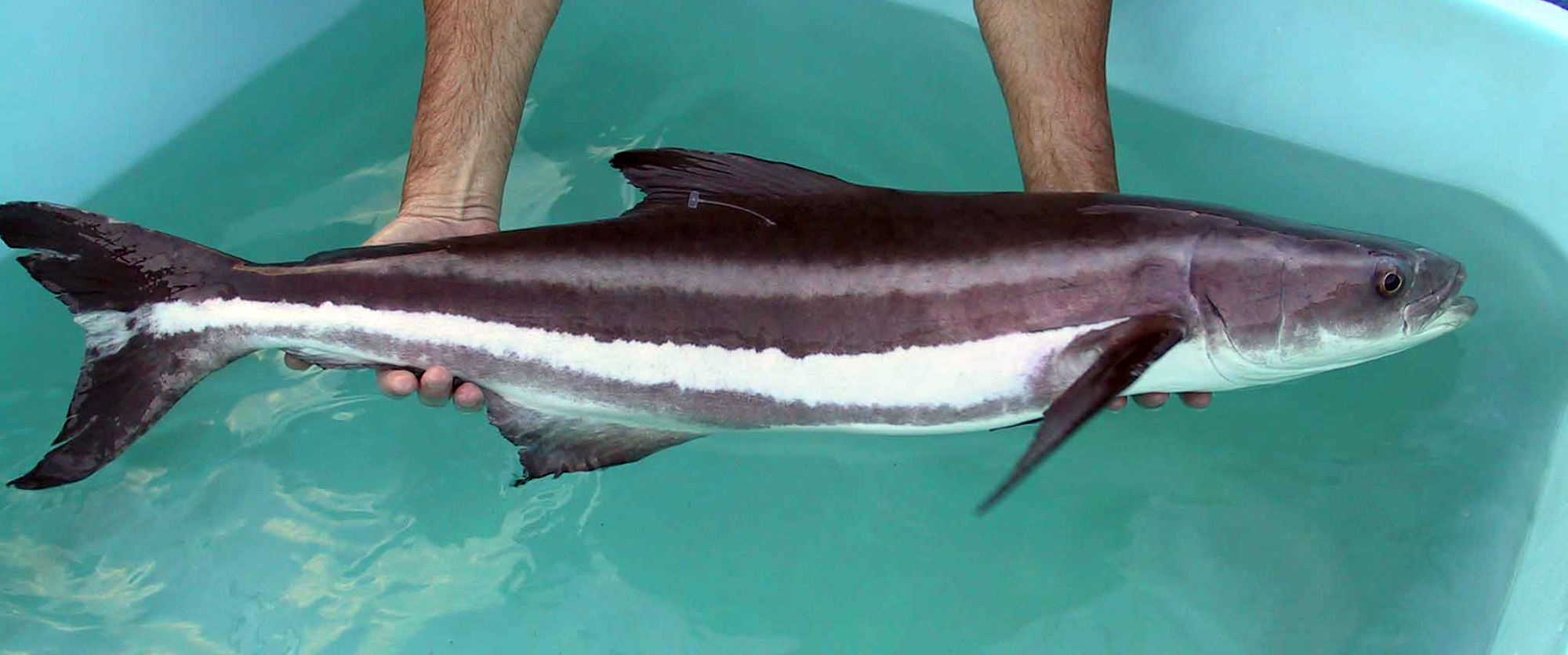 A female broodstock cobia Rachycentron canadum approximately 8 kilograms in weight prior to transport to broodstock holding tanks. Rosenstiel School of Marine and Atmospheric Science